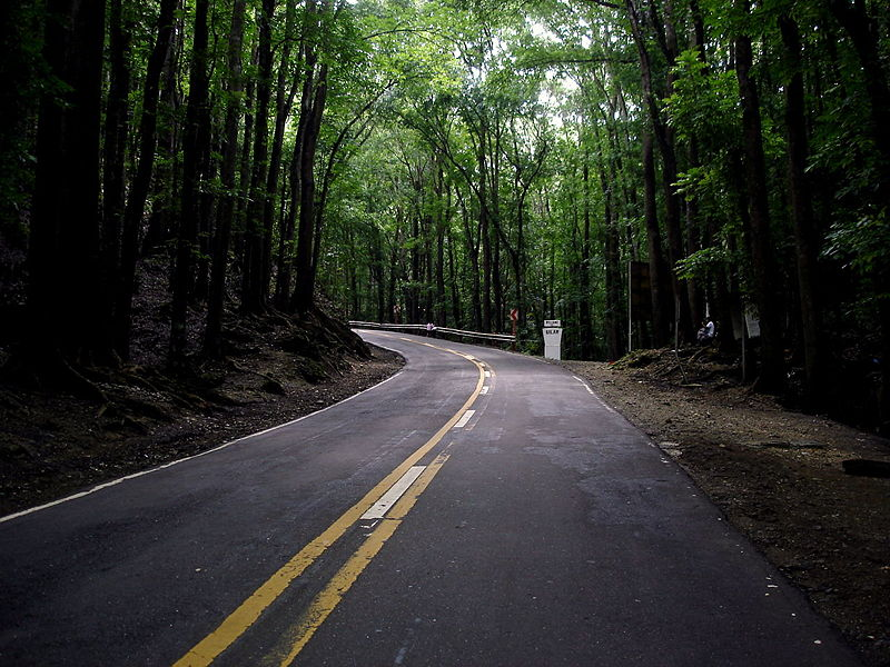 A forest of mahogany trees in Bilar, Bohol, the Philippines.